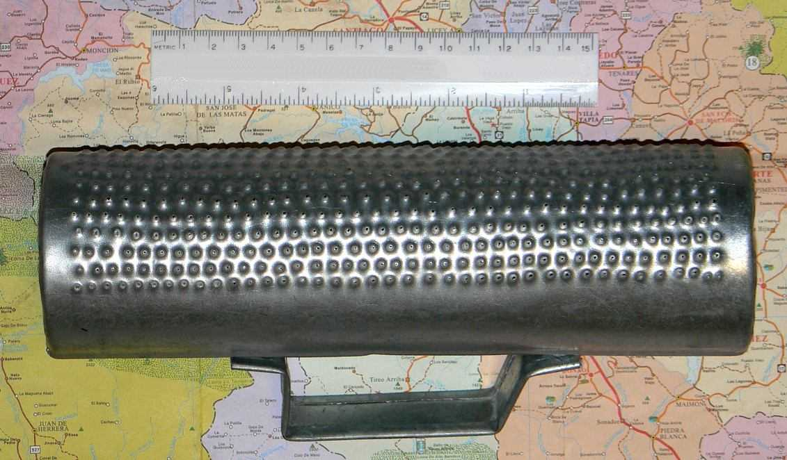 A photograph (2007) of a local musical instument, a güira. The güira was purchased in Santo Domingo, Dominican Republic, in 2007. The included scale is 15 cm or 6 inches in length.